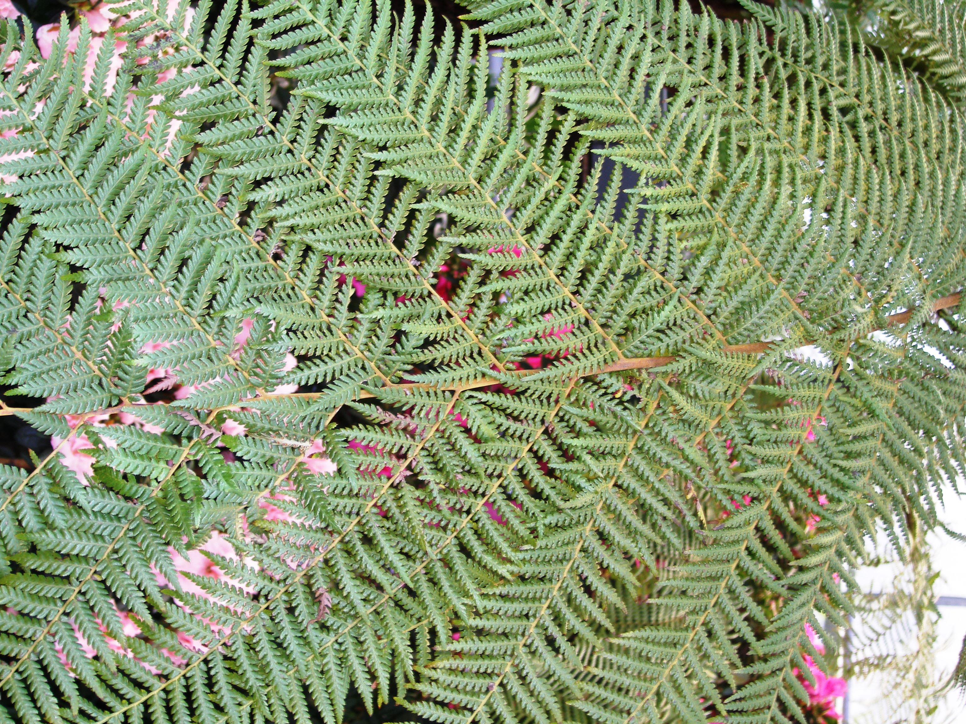 Specimen in cultivation at the Wilhelma Zoologisch-Botanische Garten, Stuttgart, Germany.